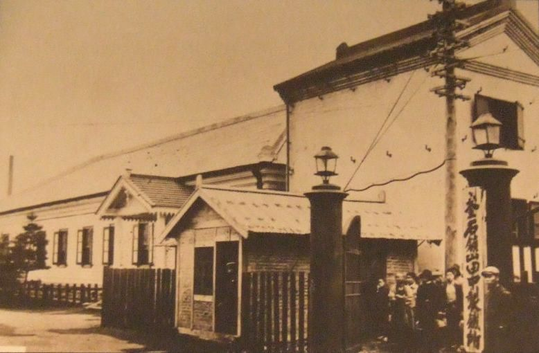 Tanaka_iron_works,_Kamaishi_mine